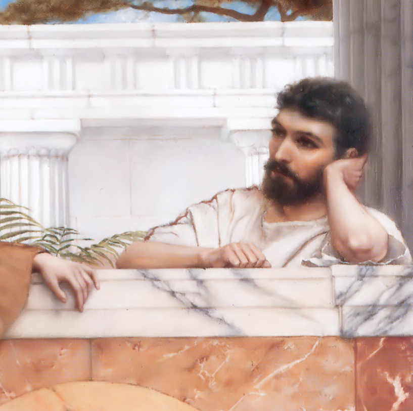 Waiting for an answer oil on canvas 61 x 35.5 cm 1889